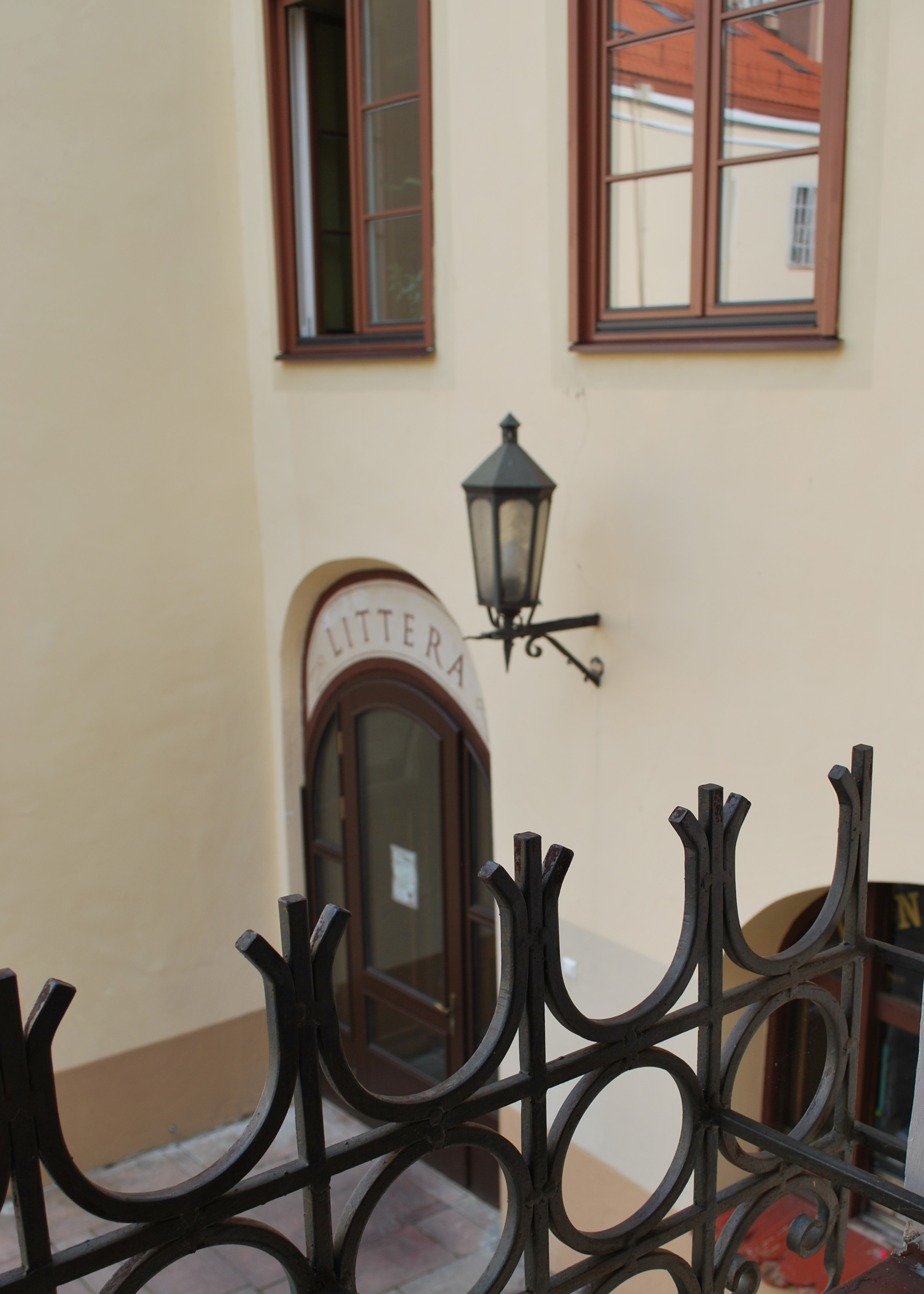 Knygynas Fakulteto kieme